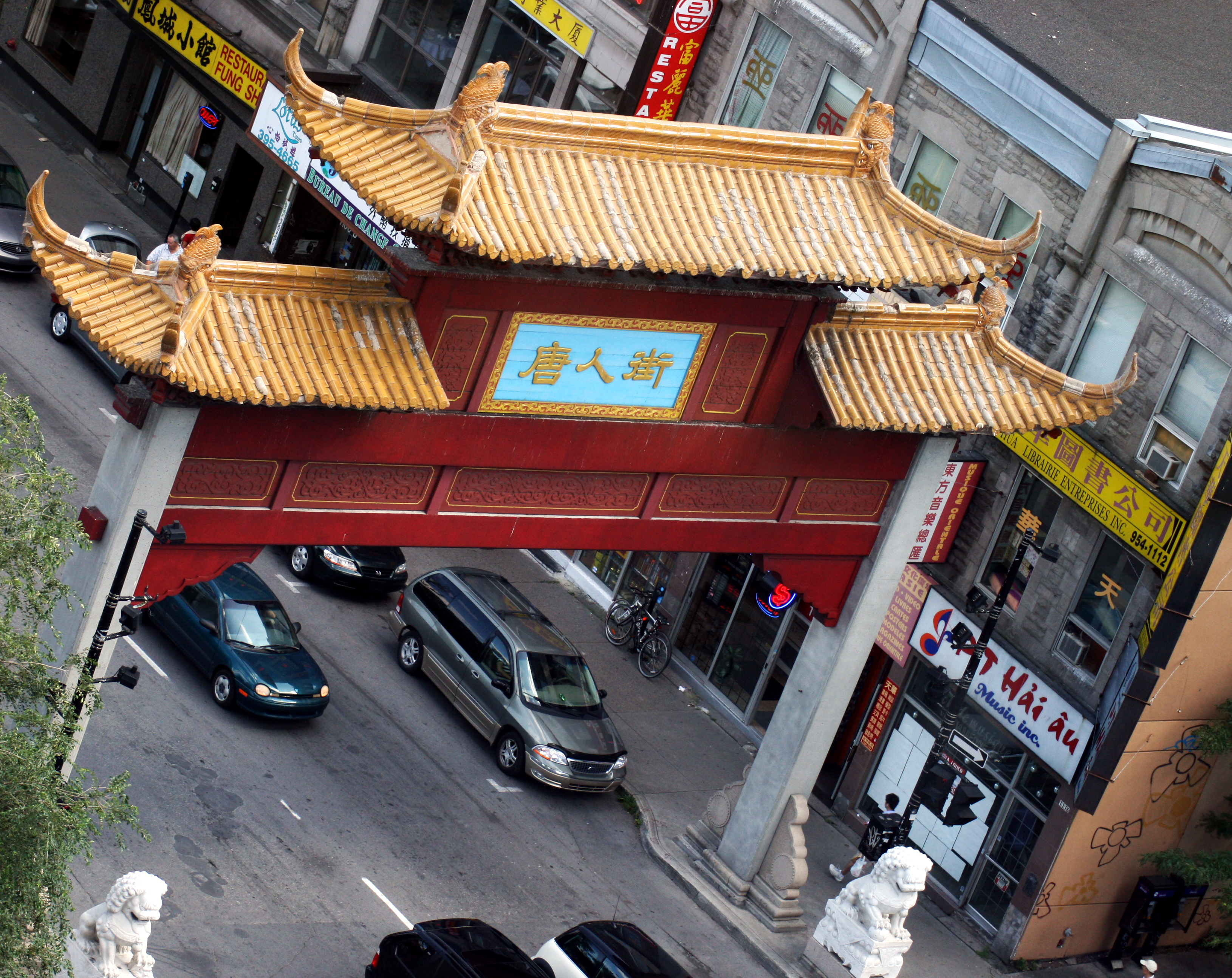 The entrance to Montreal's Chinatown seen from above.